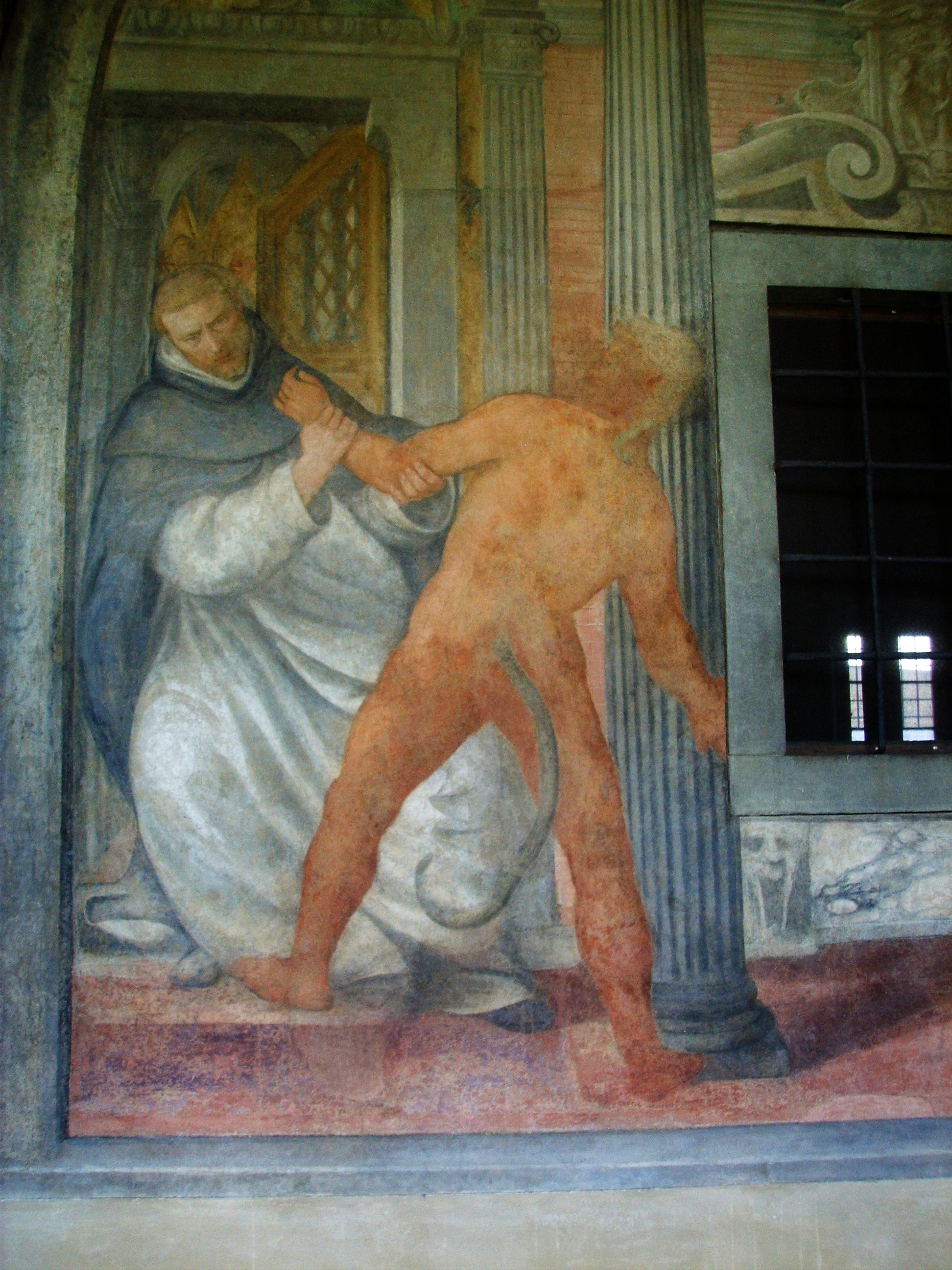 Chiostro Grande in Santa Maria Novella church fresco in Florence, Italy